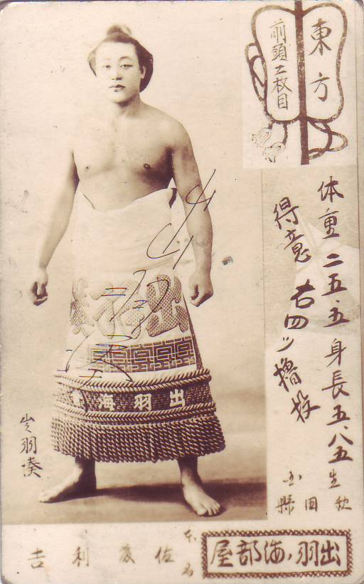 Bromide from Dewaminato Rikichi.